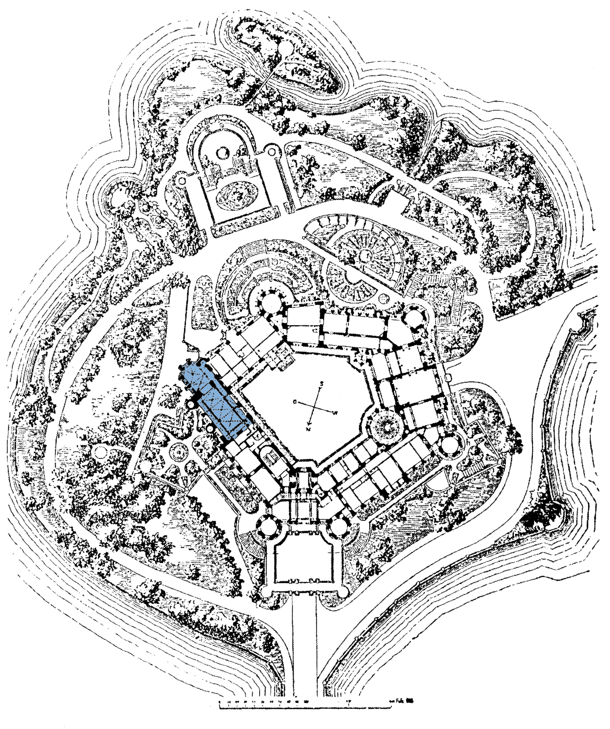 Layout of Schweriner Schloss and Burggarten (Garden)